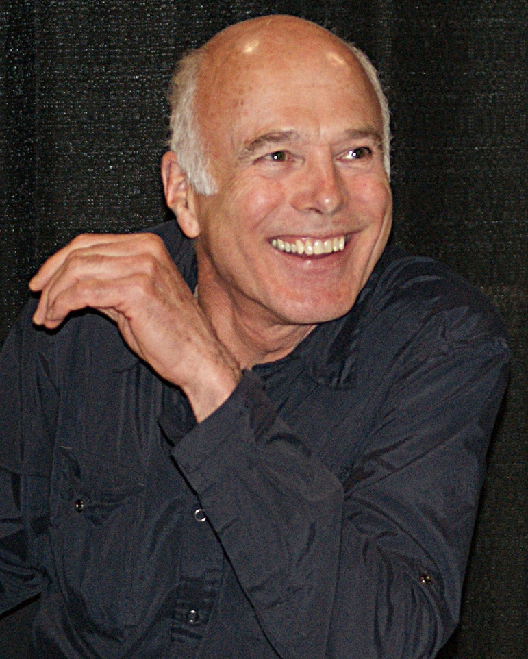 Michael Hogan attending the Calgary Comic & Entertainment Expo in BMO Centre, Calgary, Alberta, Canada.